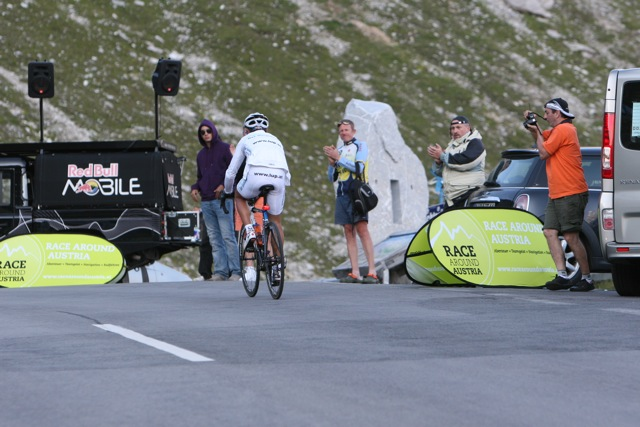 RaceAroundAustria,Edi,Fuchs,2010